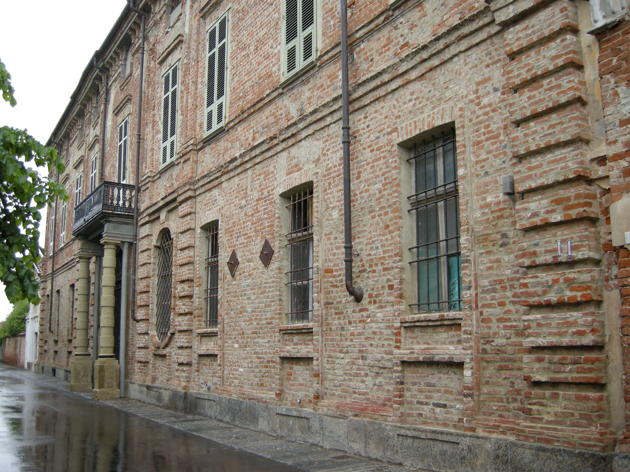 Pallazo Freilino